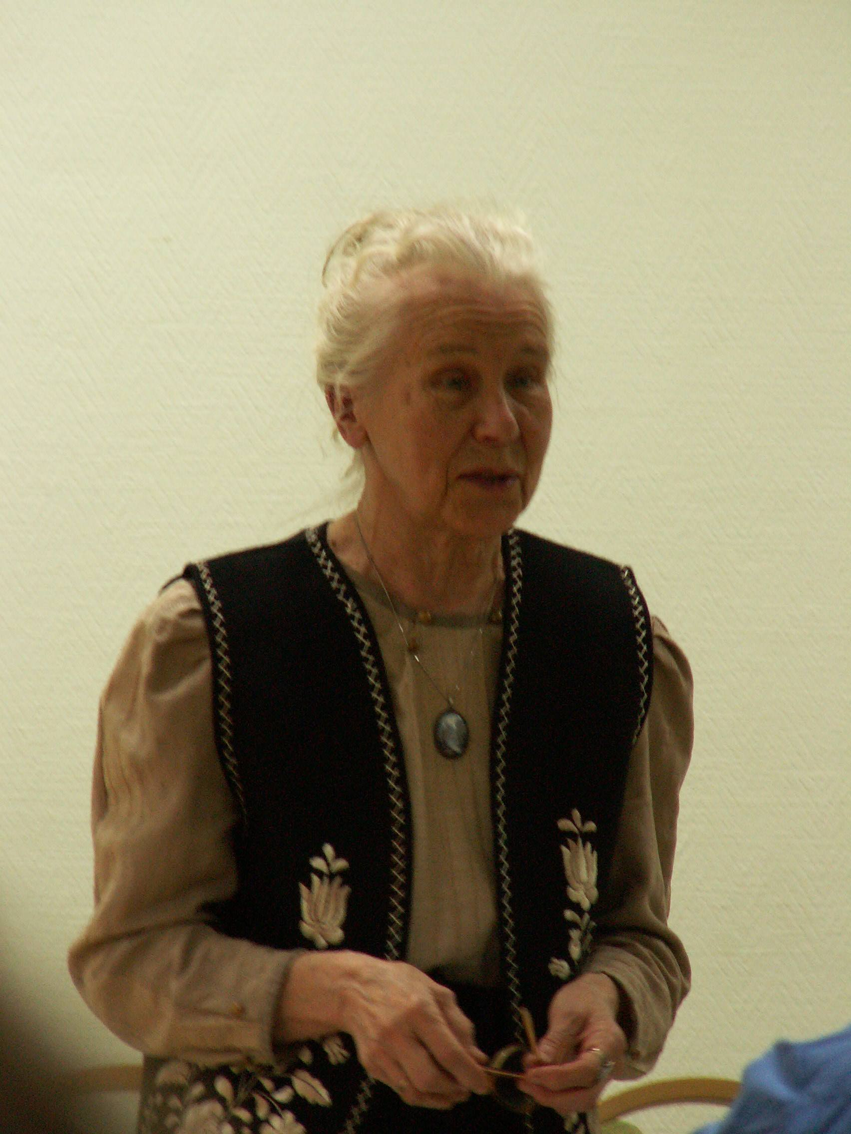 Ariadna Kuznetsova, Russian linguist